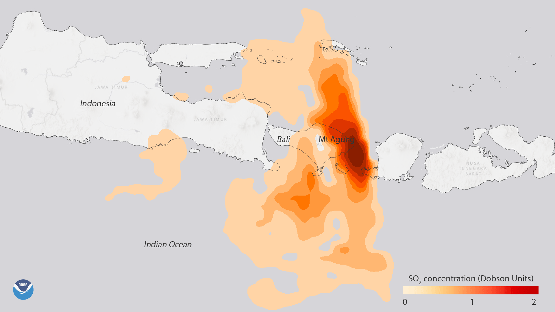 Data from NASA’s Aura satellite shows the high sulfur dioxide (SO2) concentrations associated with the volcanic eruption of Mount Agung in eastern Bali, Indonesia, on Monday, November 27, 2017. Prior to and during eruptions, volcanoes like Mount Agung release large amounts of SO2 into the atmosphere, which can act as an early warning. After being released, SO2 can be transformed into tiny sulfate aerosol particles, where they can alter the brightness of clouds and affect regional precipitation patterns.